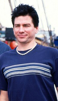 Primus band in Kopenhagen Primus at Langelinie, Copenhagen, Denmark in the summer of 1998. From left to right: Les Claypool, Bryan Mantia and Larry LaLonde. They played a concert the same day at Store Vega, Copenhagen.